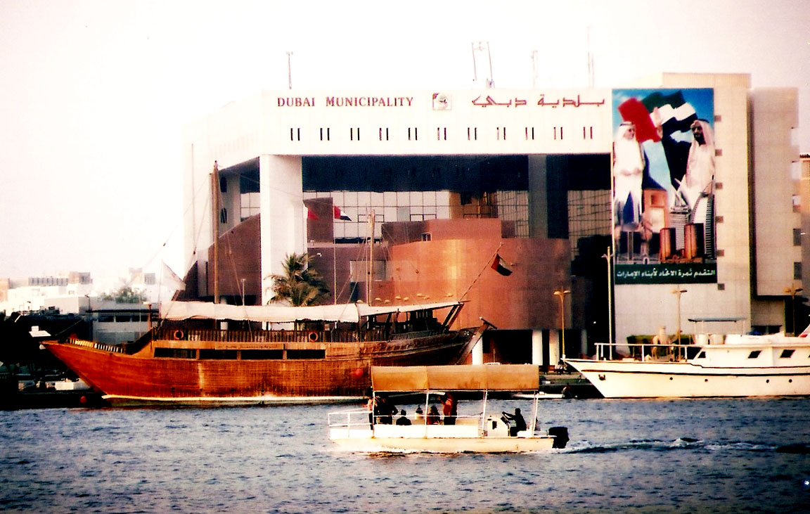 Dubai Municipality HQ across the Deira creek